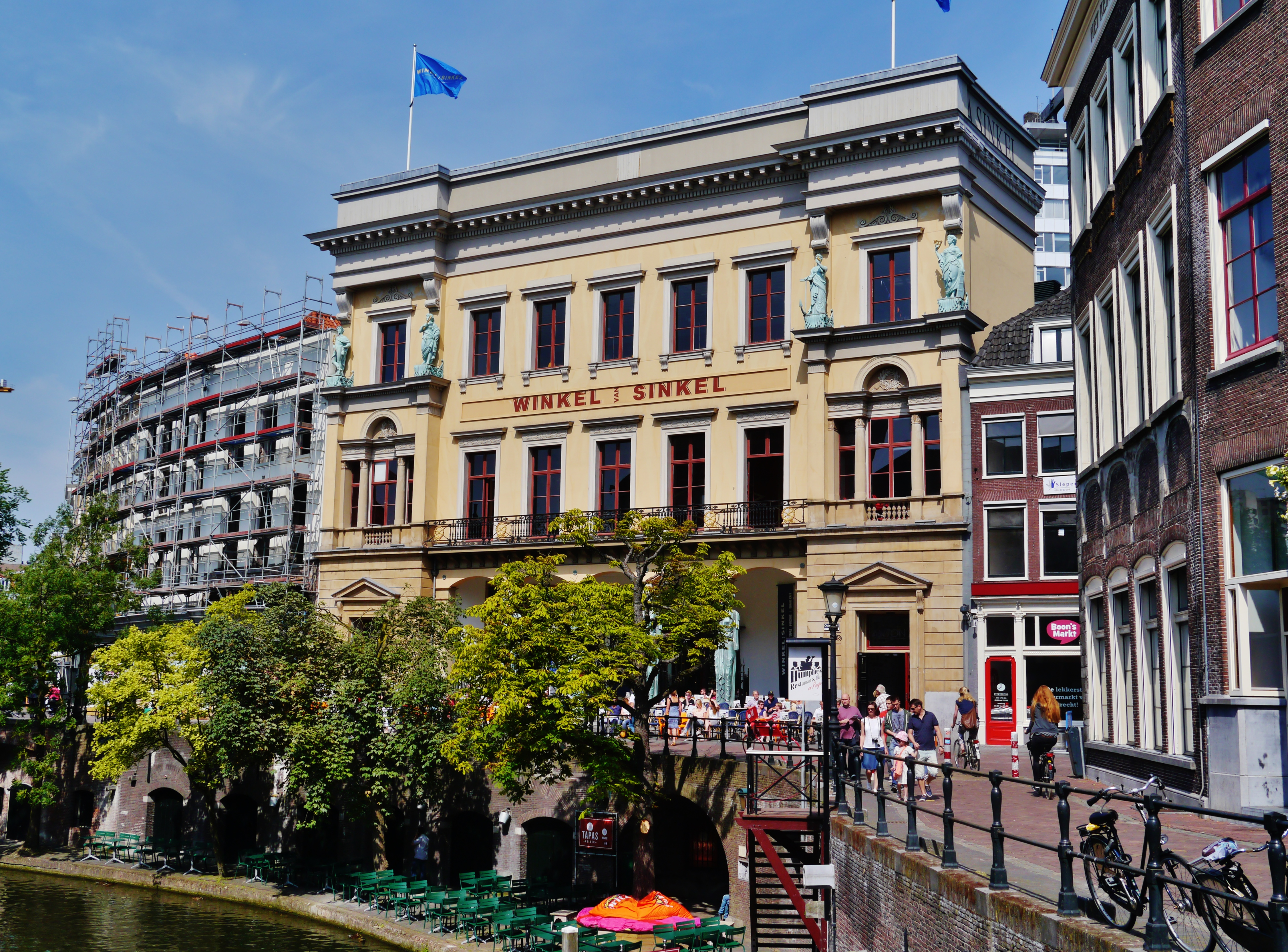 Old City of Utrecht, Province of Utrecht, Netherlands